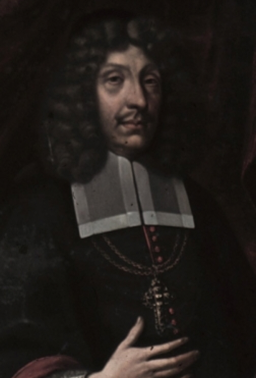 Sebastian von Pötting (1628-1689), Prince-Bishop of Passau